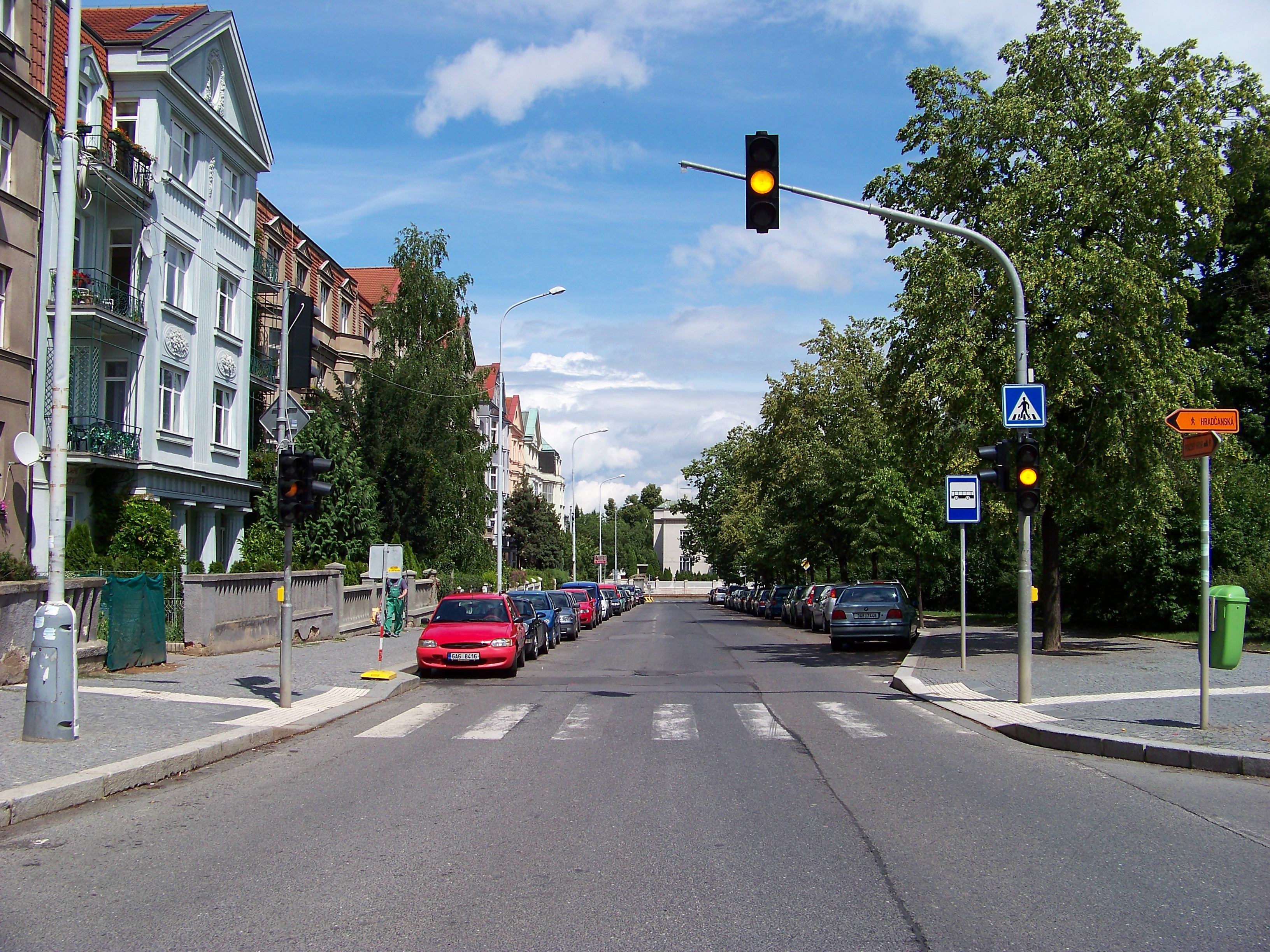 Prague-Hradčany, the Czech Republic. Na valech street.